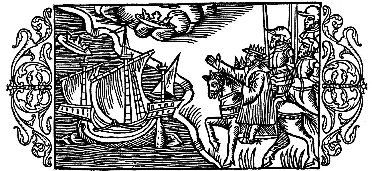 Erik Väderhatt was a Swedish king who could control the force and direction of the winds with his hat. It is he who leads the army to the right. The crowned hats to the left symbolizes his power to change the winds. In this case so the ship will go in his direction.